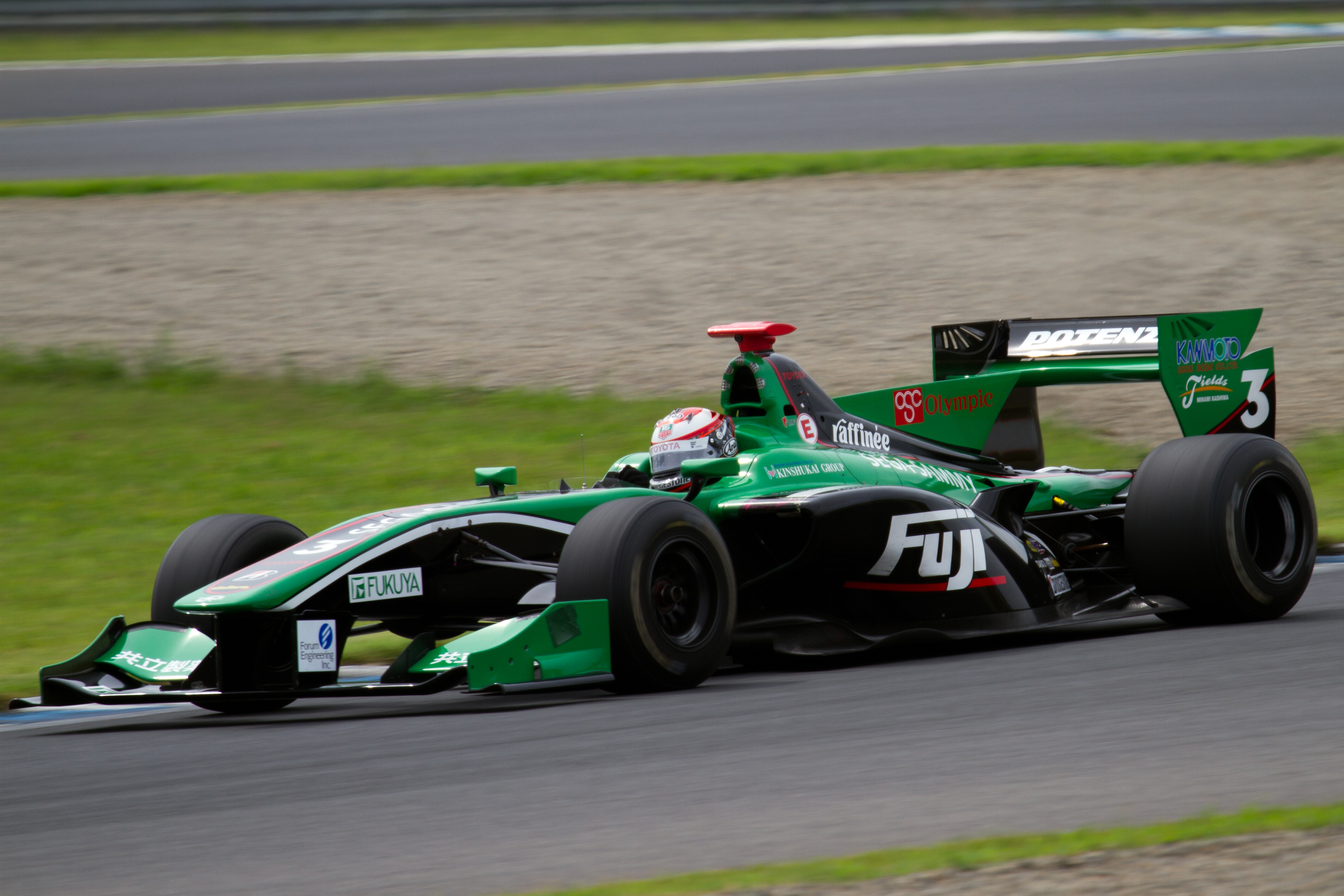 Super Formula 2014 Rd.4 Motegi: James Rossiter (Kondo Racing)